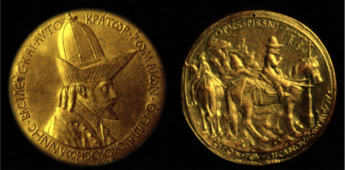 John VIII Palaeologus, Emperor of Byzantium, by Pisanello. Ferrara, Italy, about AD 1438-42--Cast gilt-bronze medal